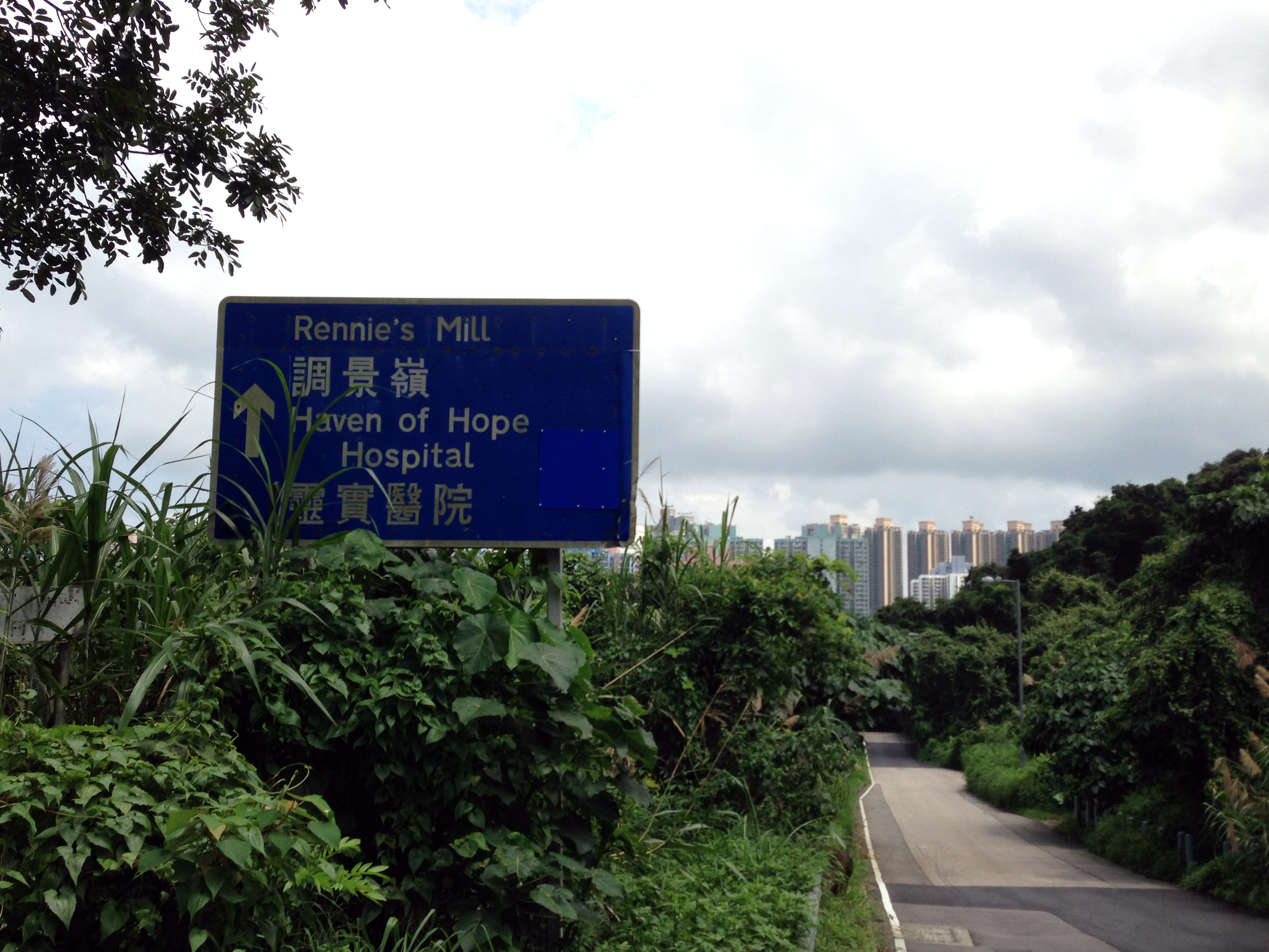 Rennie's Mill Road Sign